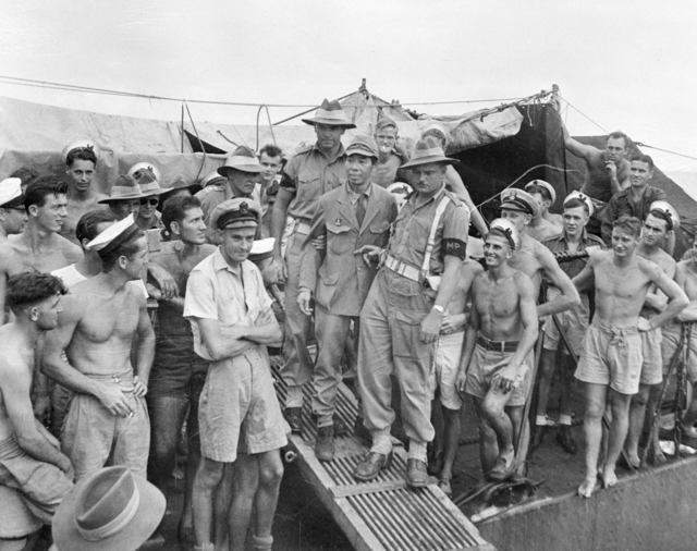 Japanese Interpreter Masakiyo Ikeuchi, who was in charge of Australian prisoners of war held at Ambon, arrives at Morotai for his war crimes trial.